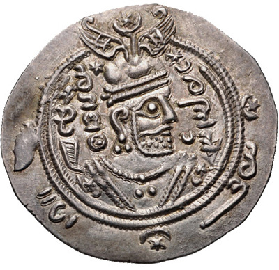 Coin of Farrukhan the Great